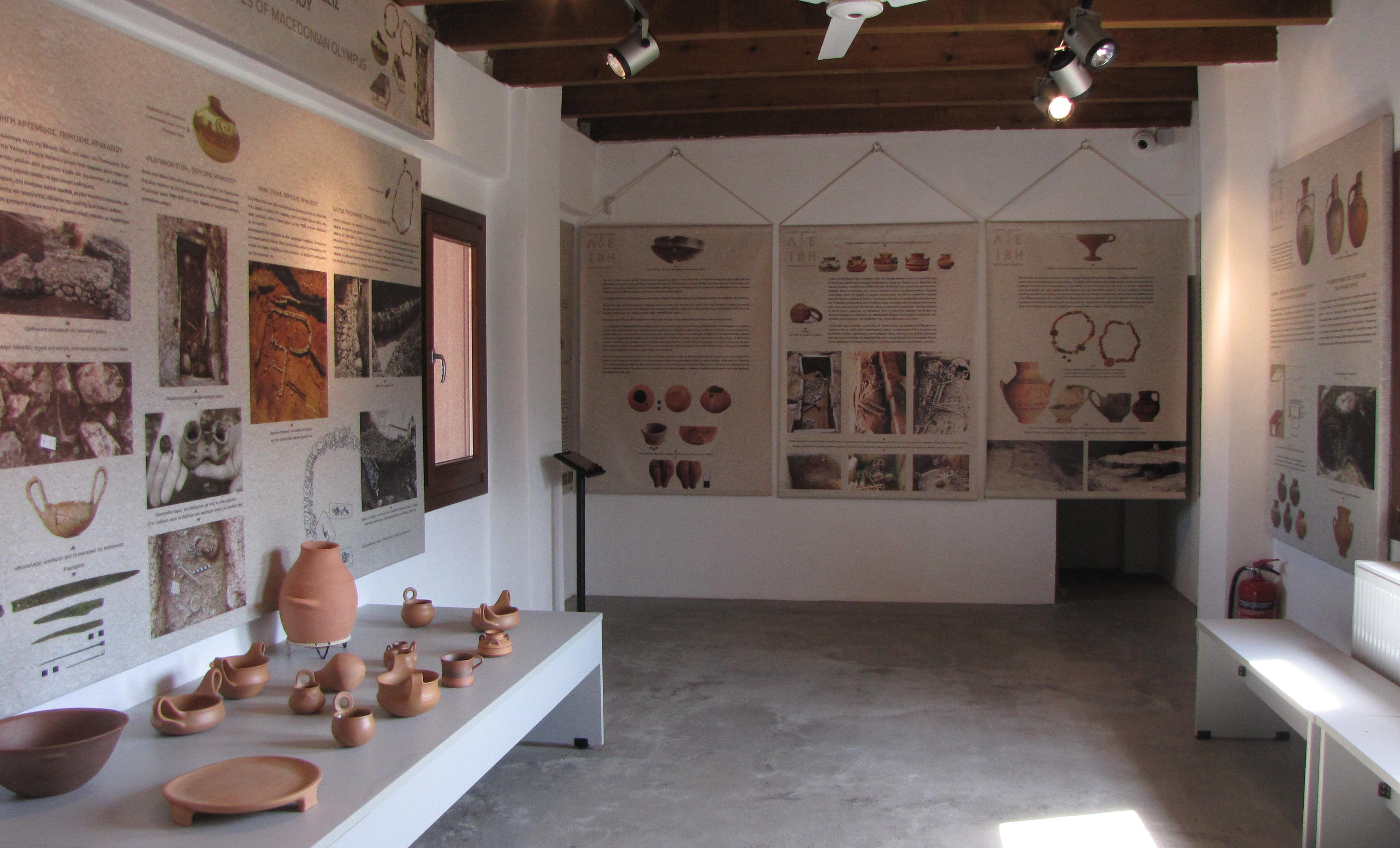 Leivithra, Museum in Leivithra Park